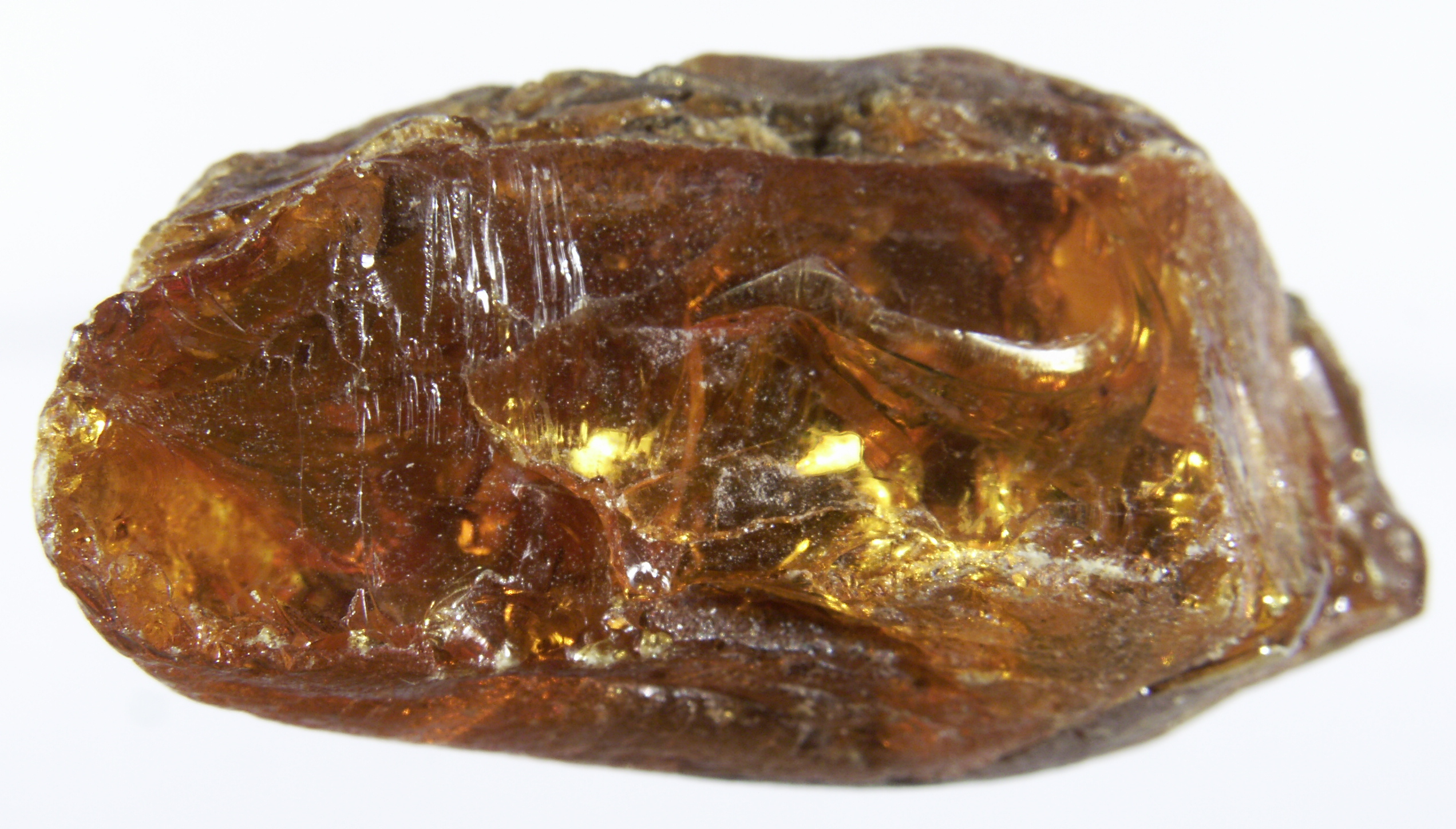 Amber from Bitterfeld, gedanite